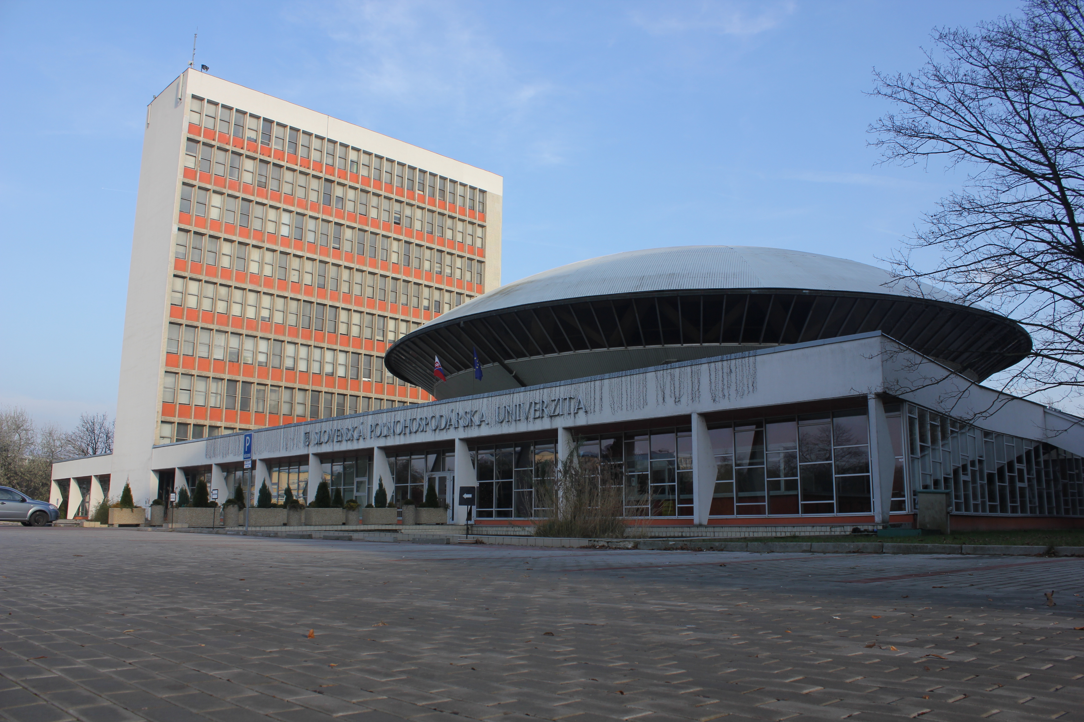 Slovak University of Agriculture in Nitra, Slovakia